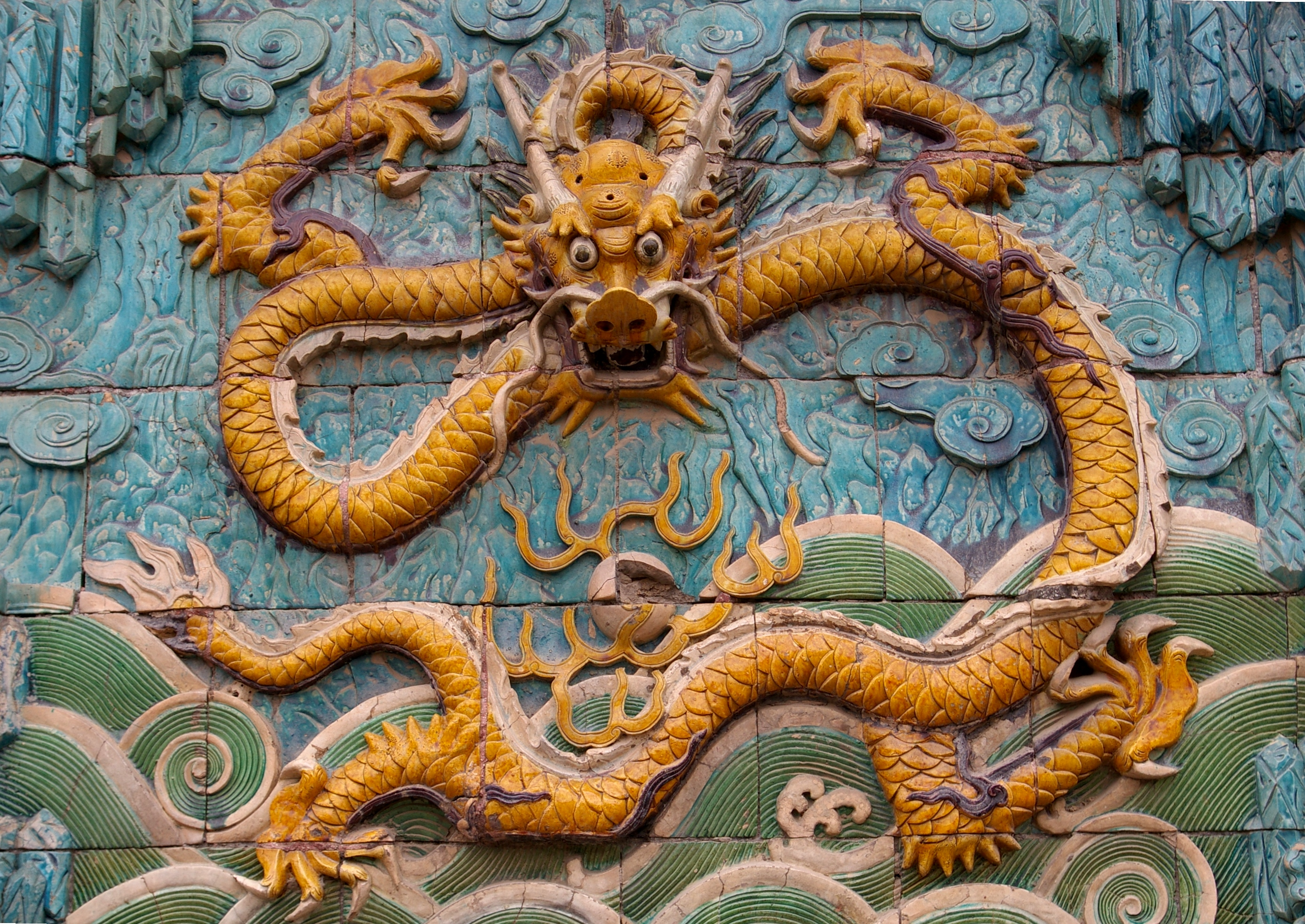 Fragment of the Nine Dragon Wall in Forbidden City, Beijing